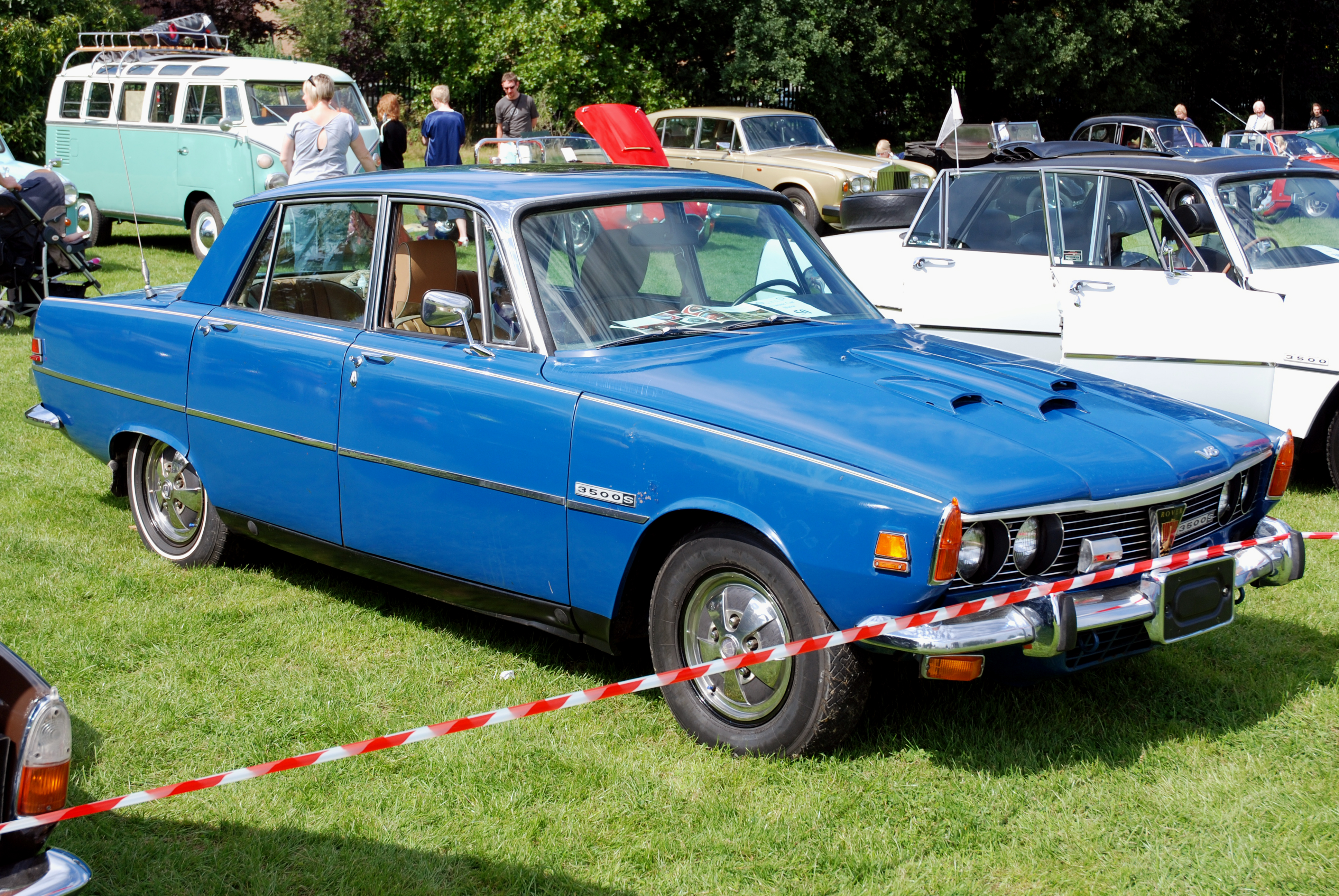 US-spec Rover 3500S at the Woking Summer Festival, August 2007